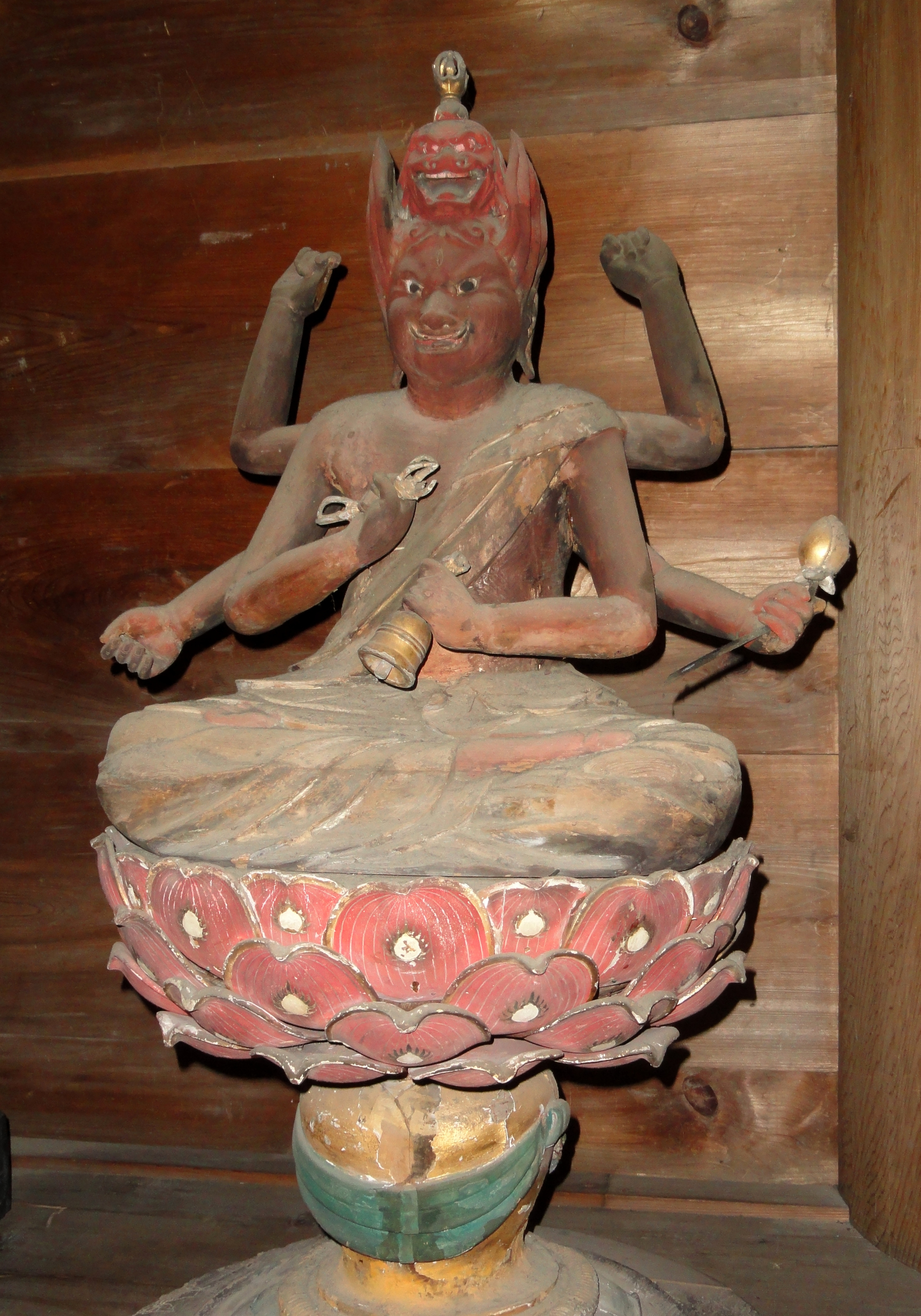 Statue, Mii-dera (三井寺), Otsu, Shiga, Japan.